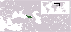 Location map for Georgia.